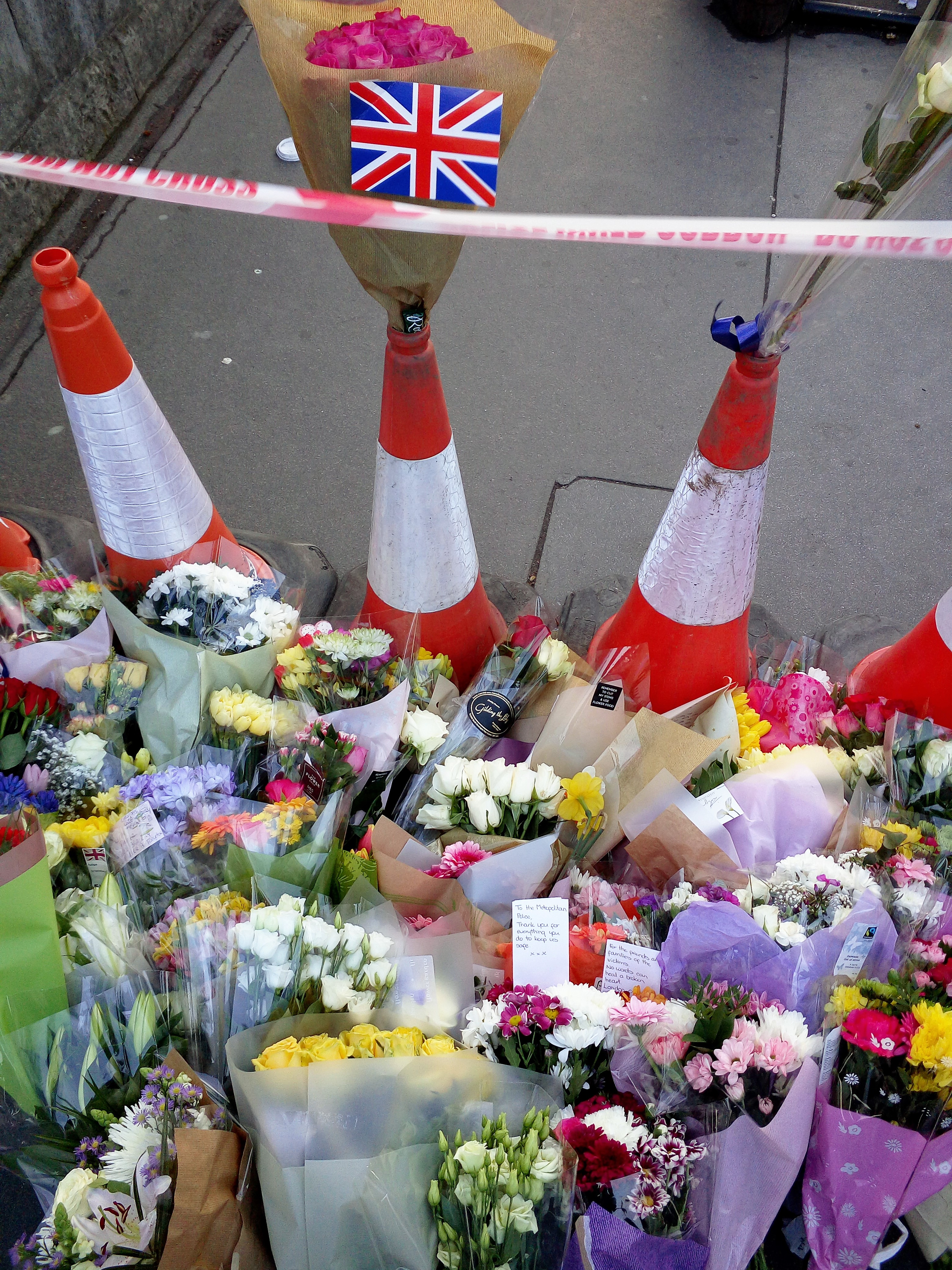 Detail of flowers next to Westminster Palace, London, the day after the 2017 Westminster attack.